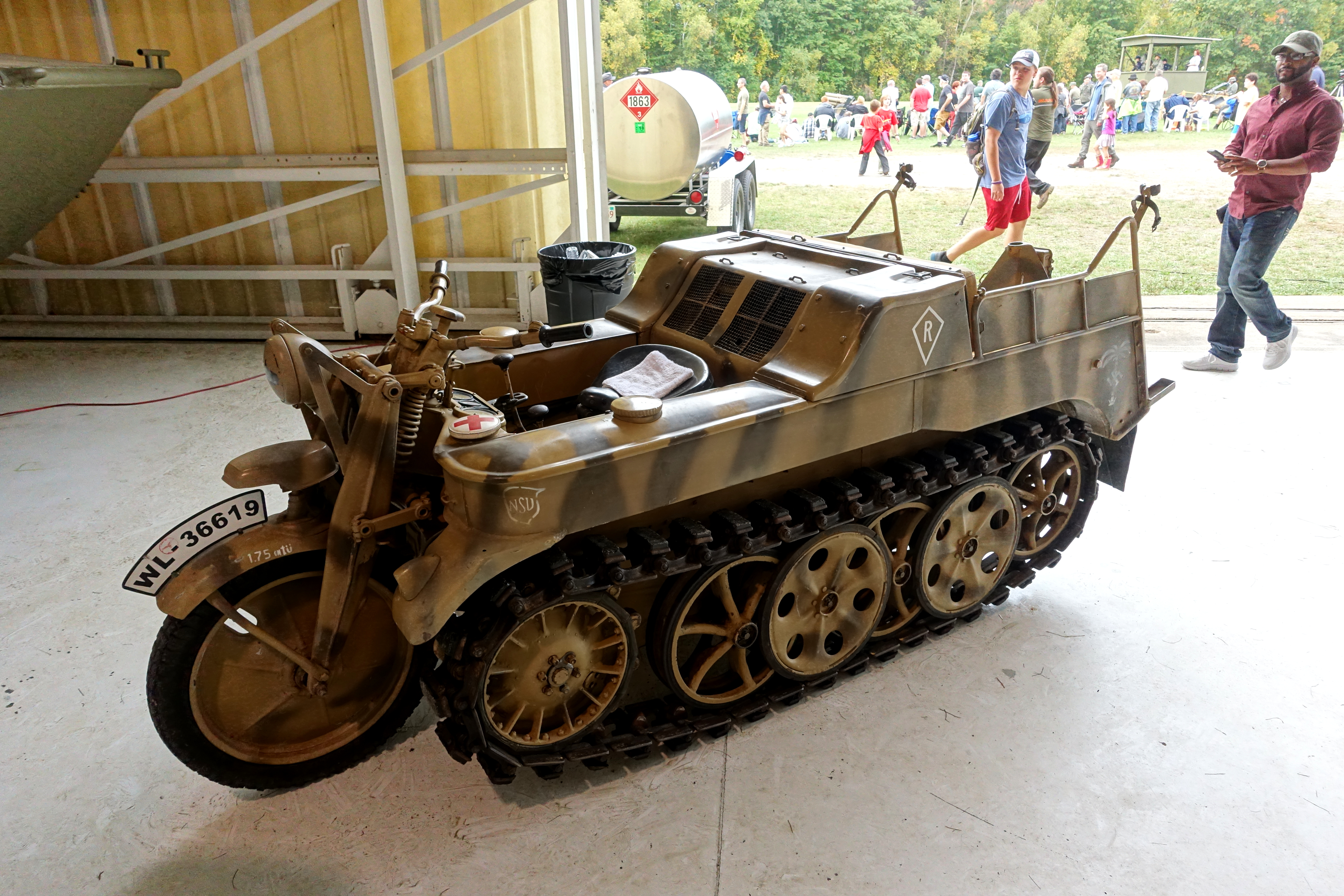 Exhibit in the Collings Foundation - Stow / Hudson, Massachusetts, USA.